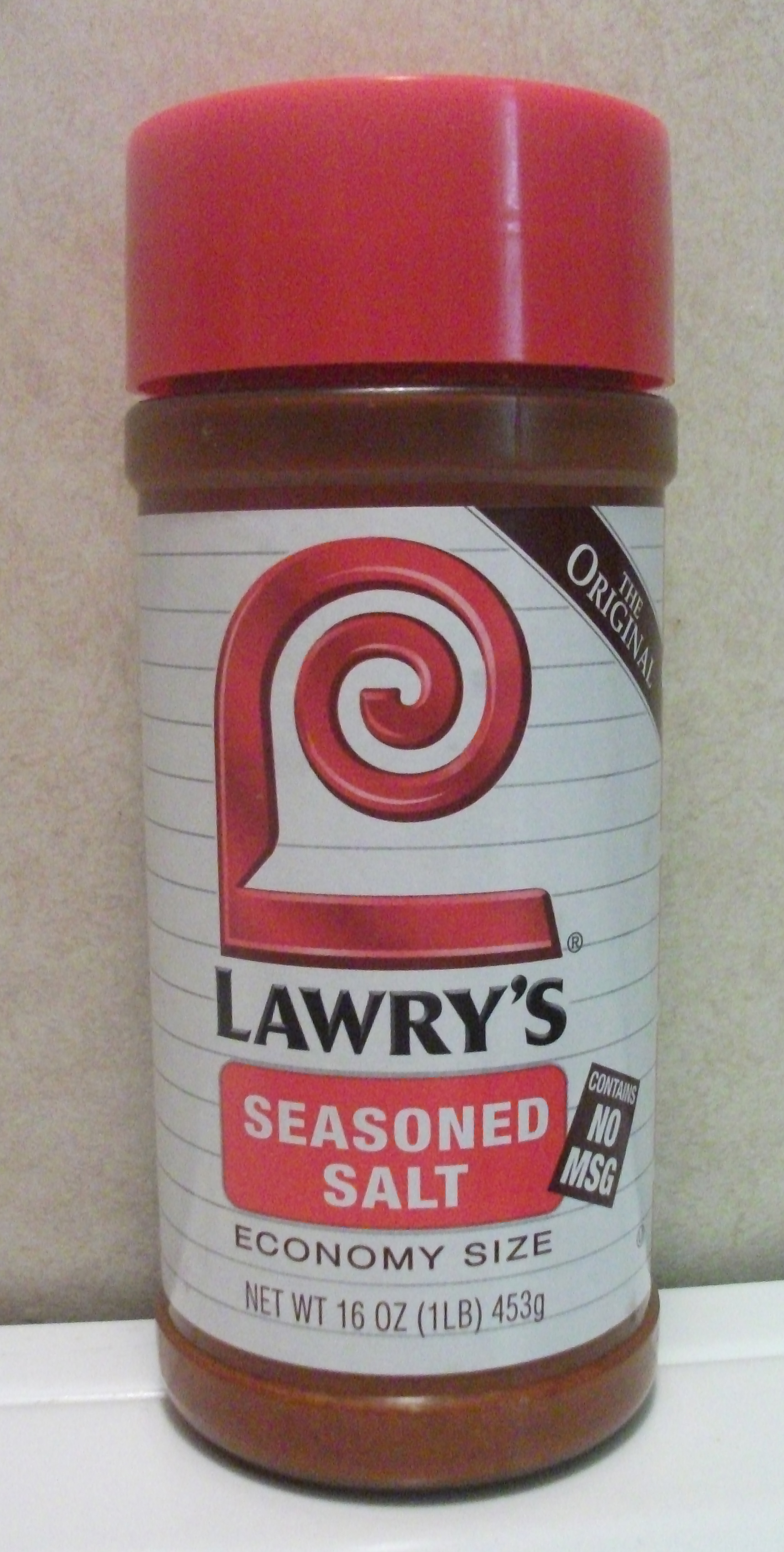 Economy sized Lawry's Seasoned Salt.